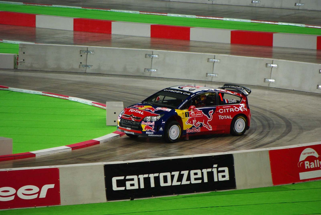 Sébastien Loeb driving his Citroën C4 WRC at a Sapporo Dome super special stage of the 2008 Rally Japan.